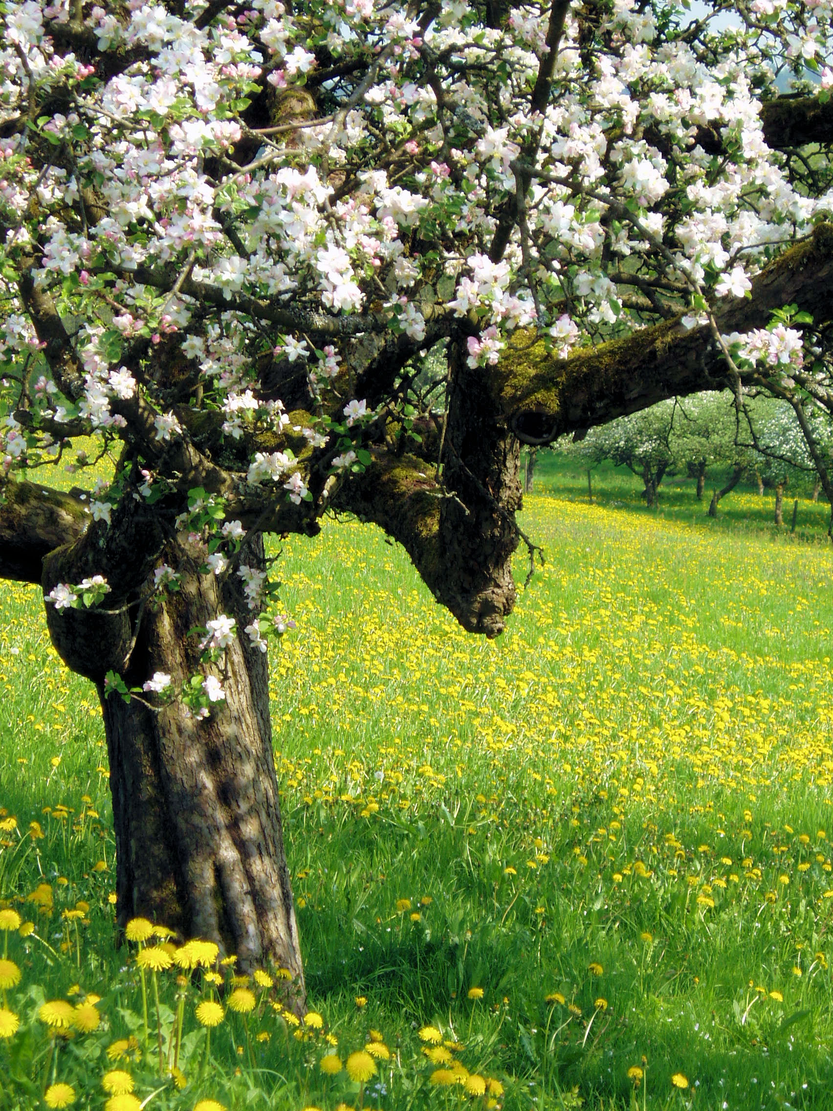 Apple tree in Murrhardt (Germany)